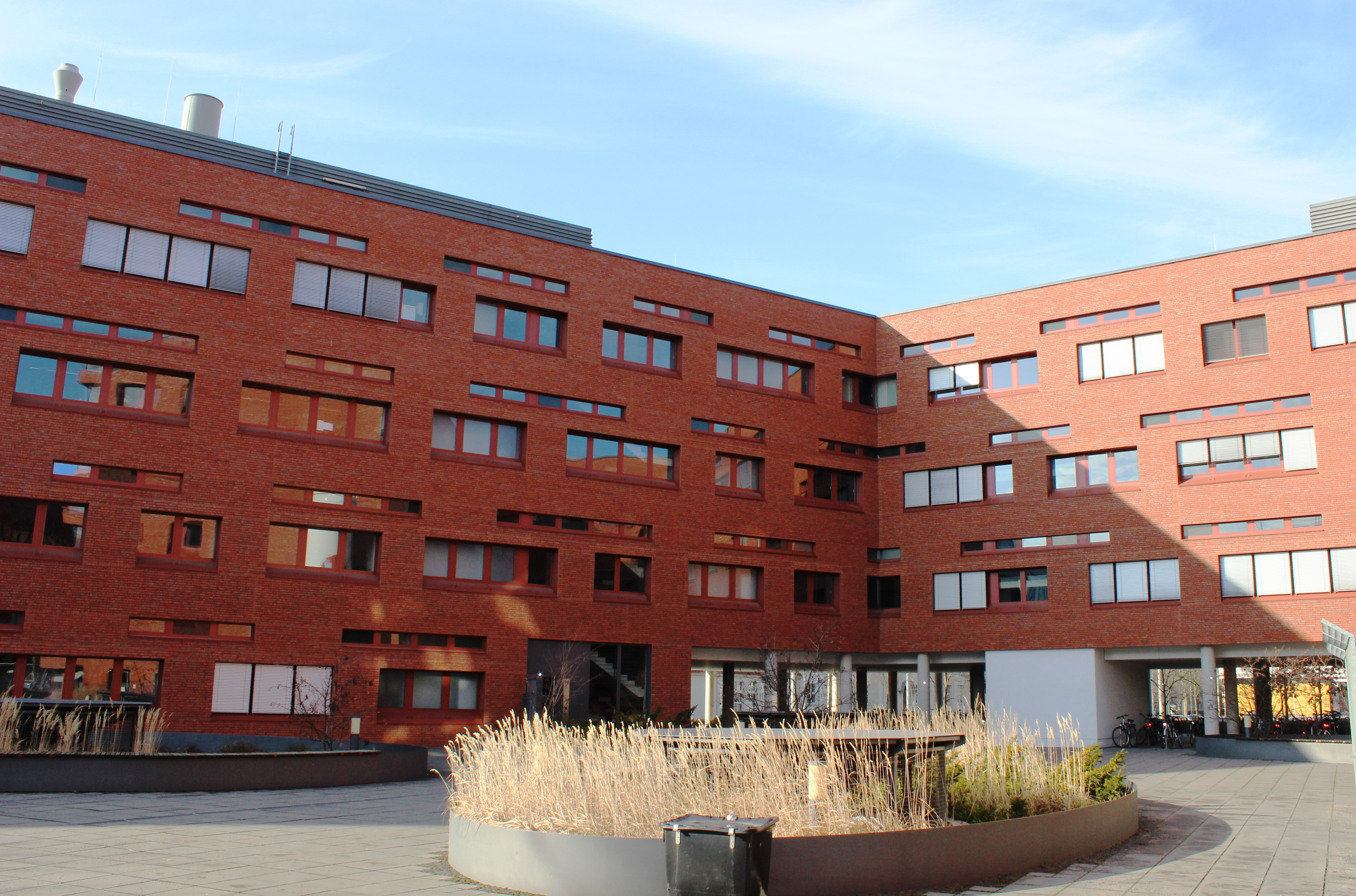 The German Centre for Integrative Biodiversity Research (iDiv) Halle-Jena-Leipzig is based on the Bio City Leipzig